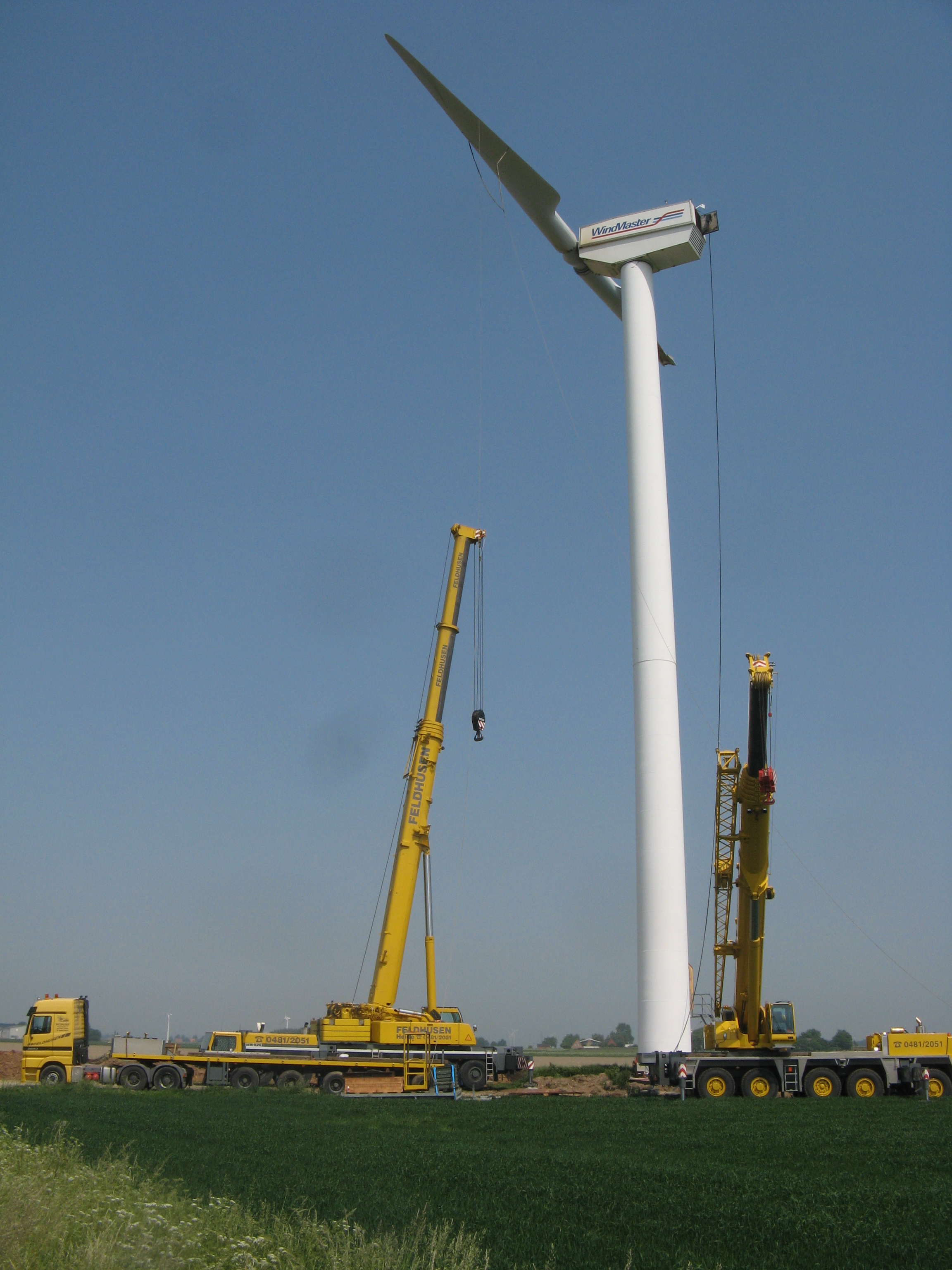 Dismantling a Wind turbine in Hellschen-Heringsand-Unterschaar, Holstein, Germany